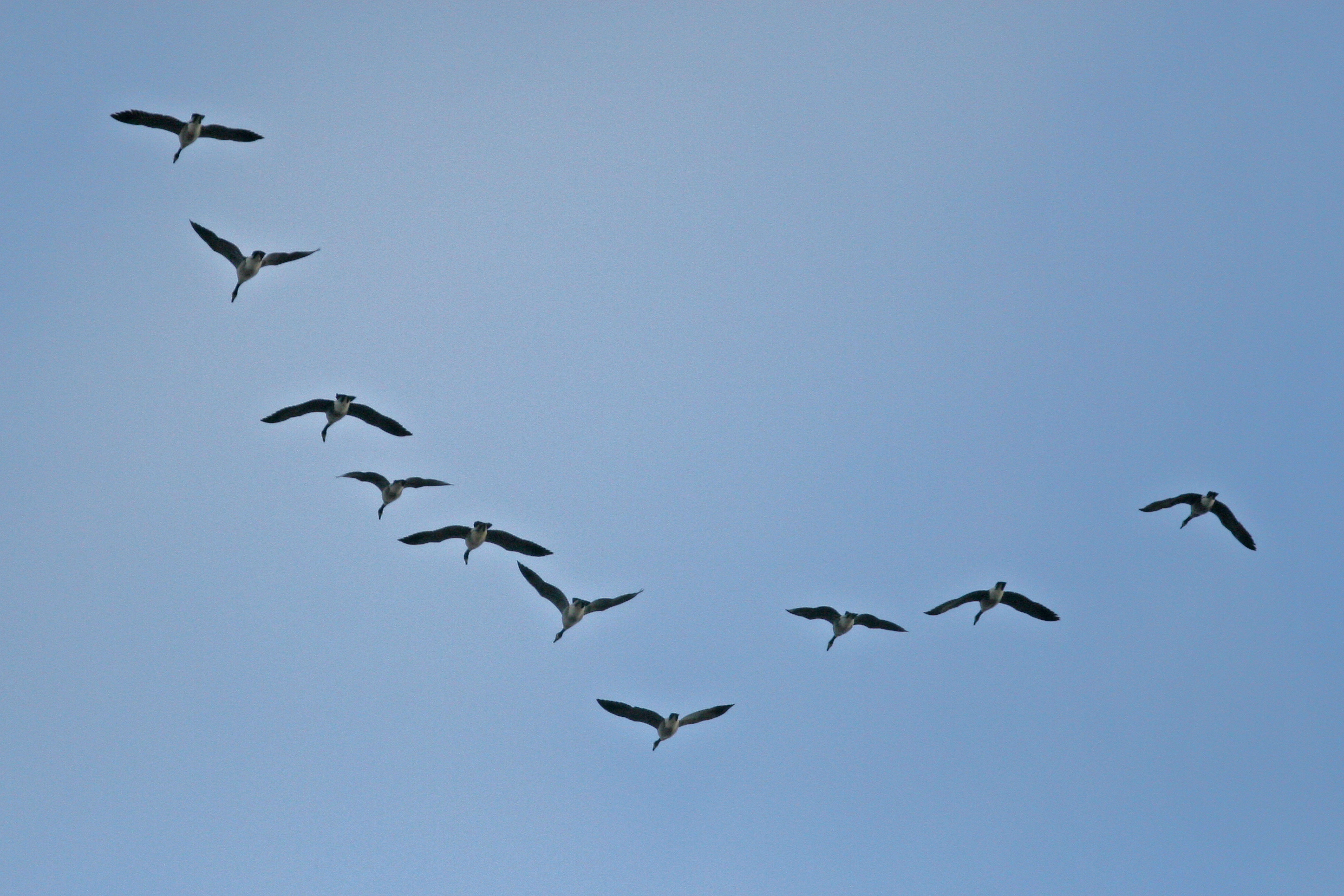 Canada Geese flying in a V-shaped formation. Madison, Wisconsin.